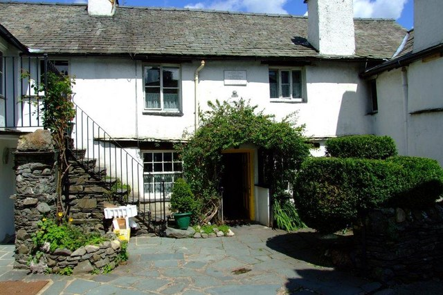 Ann Tyson's Cottage. William Wordsworth is believed to have stayed at this property in Hawkshead.